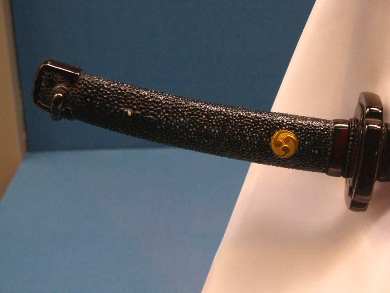 Antique Japanese tachi tsuka.